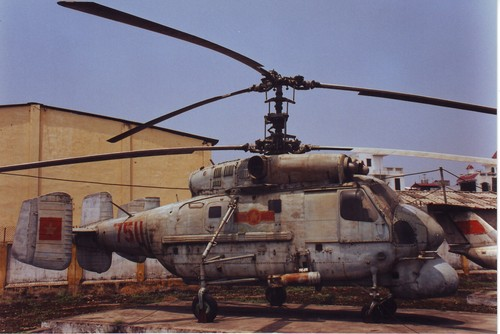 Kamov helicopter in Vietnamese People's Air Force Museum, Hanoi